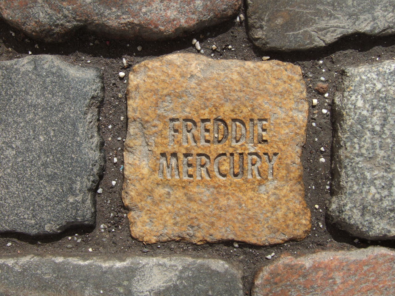 Tom Fecht: Kaltes Quadrat (cold square) – Bonn – installation in the entrance of the Federal art and exhibition hall in Bonn – paving stone in memory of Freddie Mercury